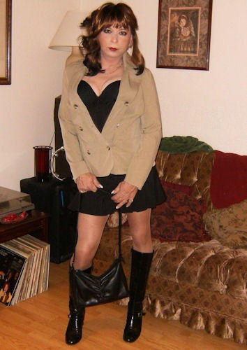 Isaac Mizrahi Jacket